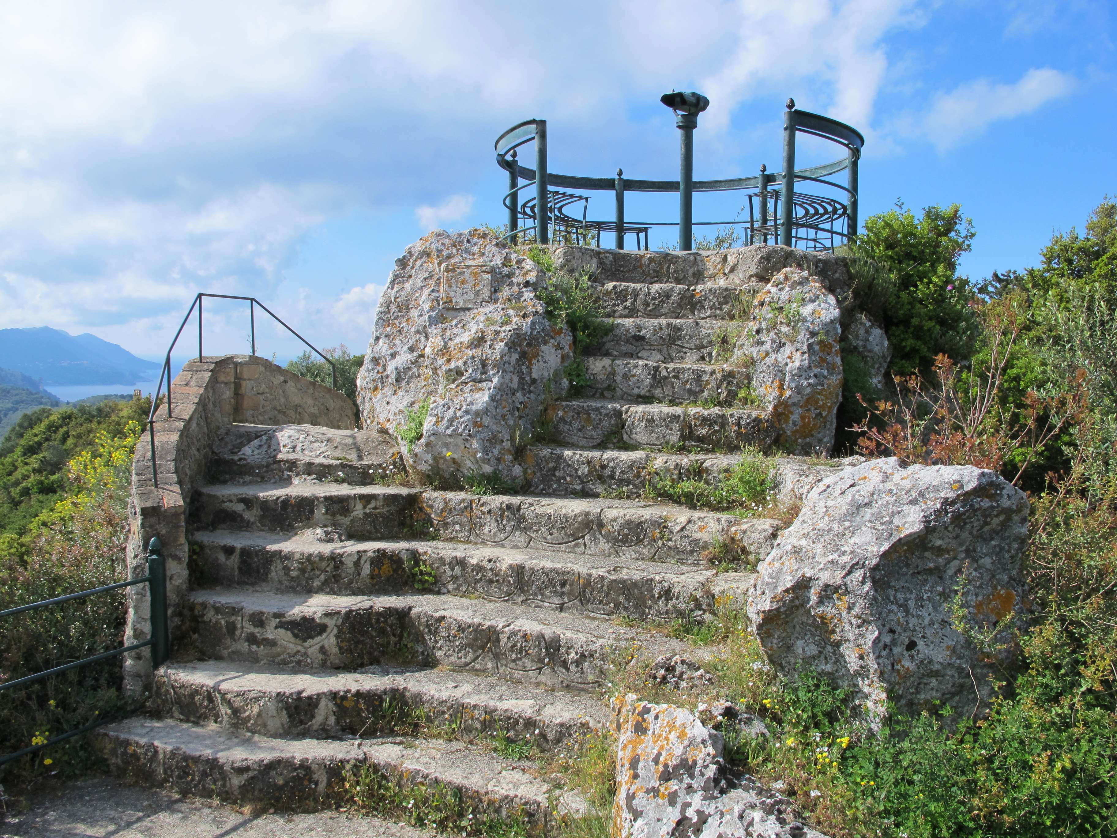 Viewpoint Kaiser's Throne